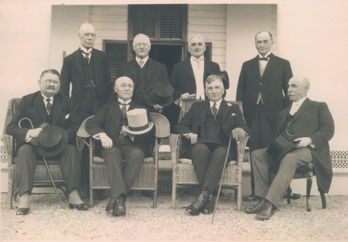 The Lieutenant-Governors from across Canada, standing from left to right: Henry William Newlands (Saskatchewan), Walter Cameron Nichol (British Columbia), Frank Richard Heartz (Prince Edward Island) and James Albert Manning Aikins (Manitoba), sitting left to right: James Robson Douglas (Nova Scotia), Narcisse Pérodeau (Quebec), Henry Cockshutt (Ontario) and Willaim Frederick Todd (NewBrunswick), in front of Spencer Wood, the official residence of Quebec's Lieutenant-Governor in Sillery, Quebec, Canada.